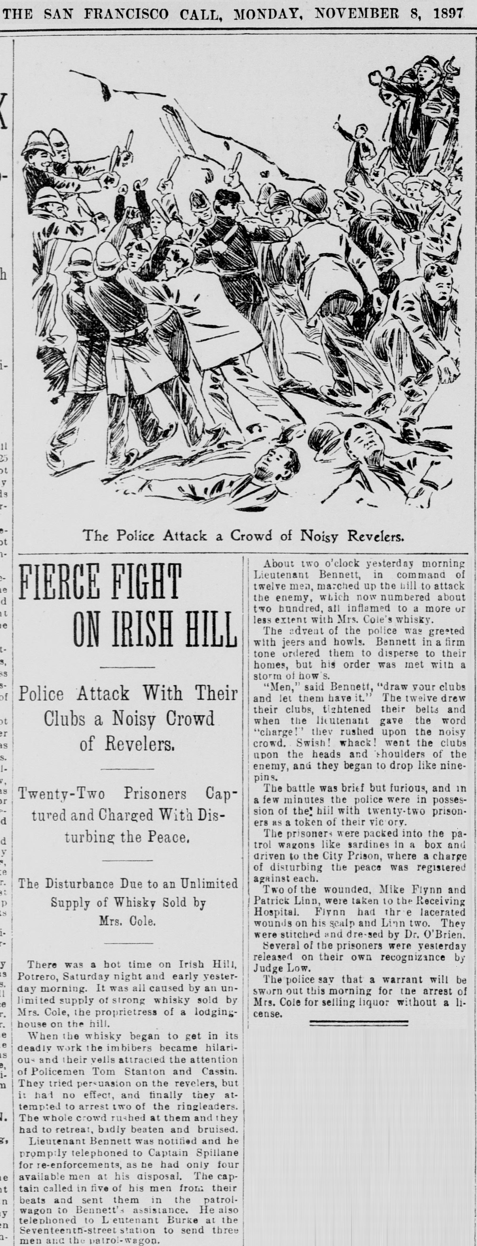 Newspaper clipping from page 6 of the San Francisco Call newspaper, published November 8, 1897. Article describing police roundup of drunken brawl on Irish Hill, San Francisco, California.